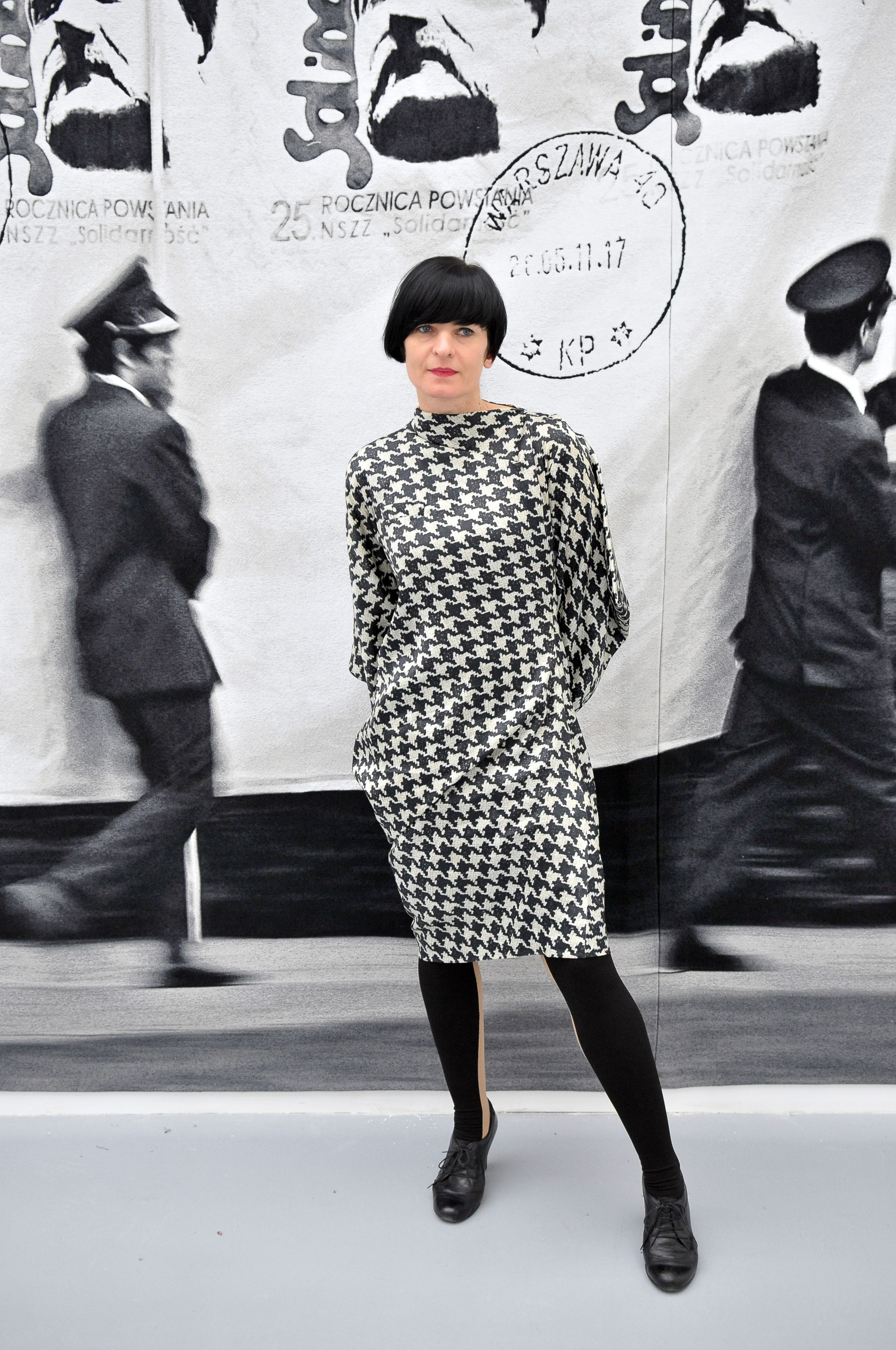 02-12-2011 Goshka Macuga. Bez tytułu. Untitled. Exhibition in Zacheta National Gallery of Art. Warsaw